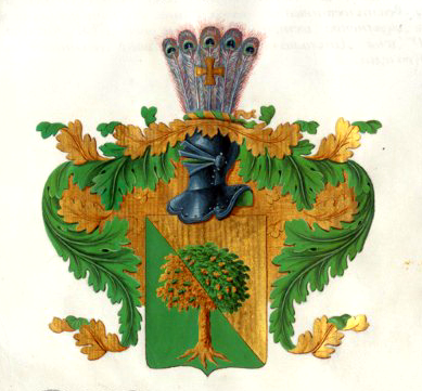 Coat of Arms of Dubyansky family